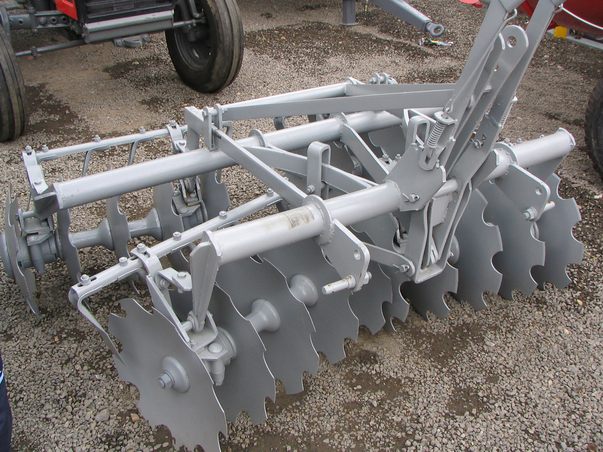 Disk harrows 4winged (photo: Mihailo Grbić)